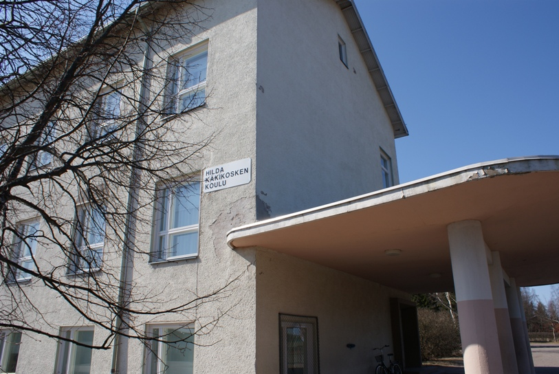 A photo of Hilda Käkikoski elementary school in Porlammi, Lapinjärvi, Finland